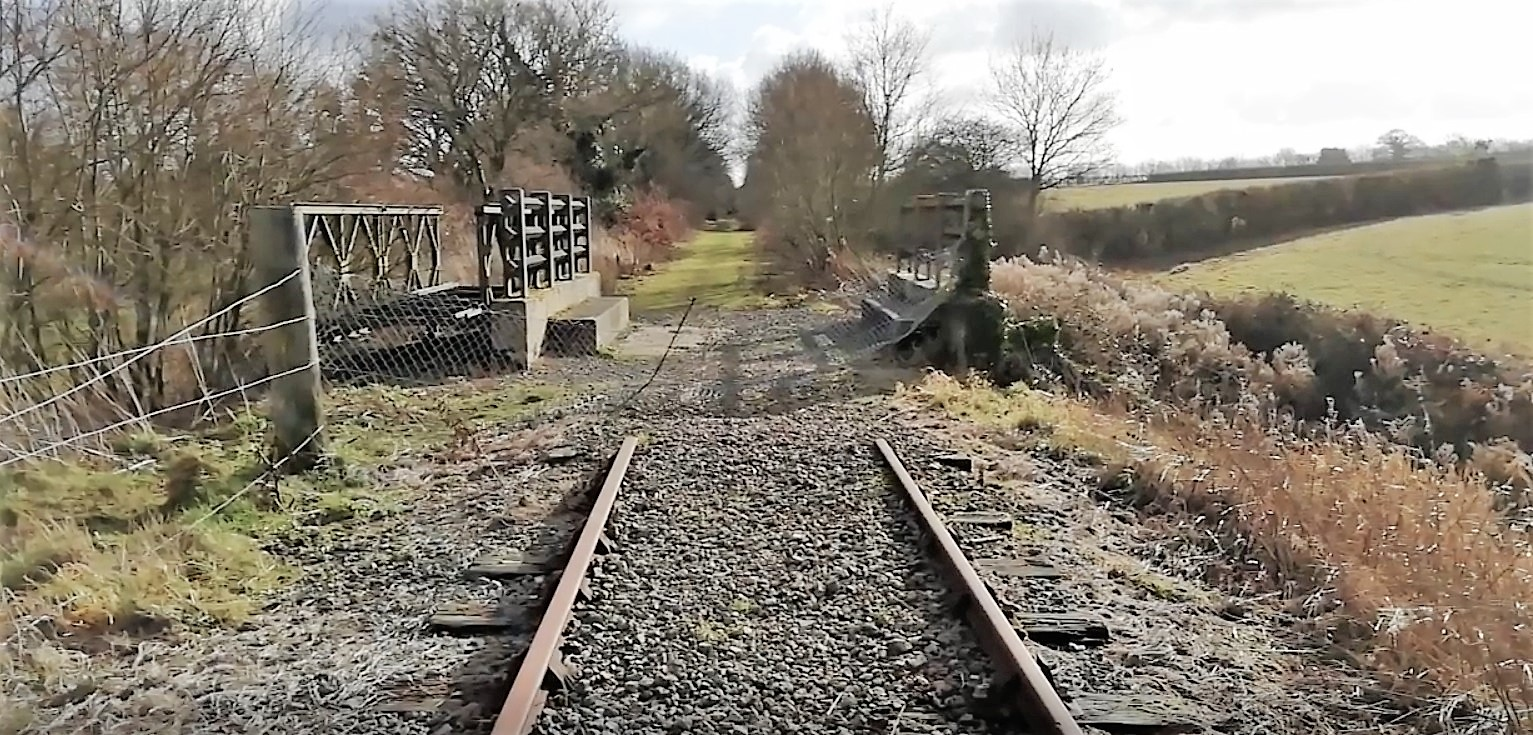 Looking back towards North Elmham from the track limit at County School station. Missing section of one mile.